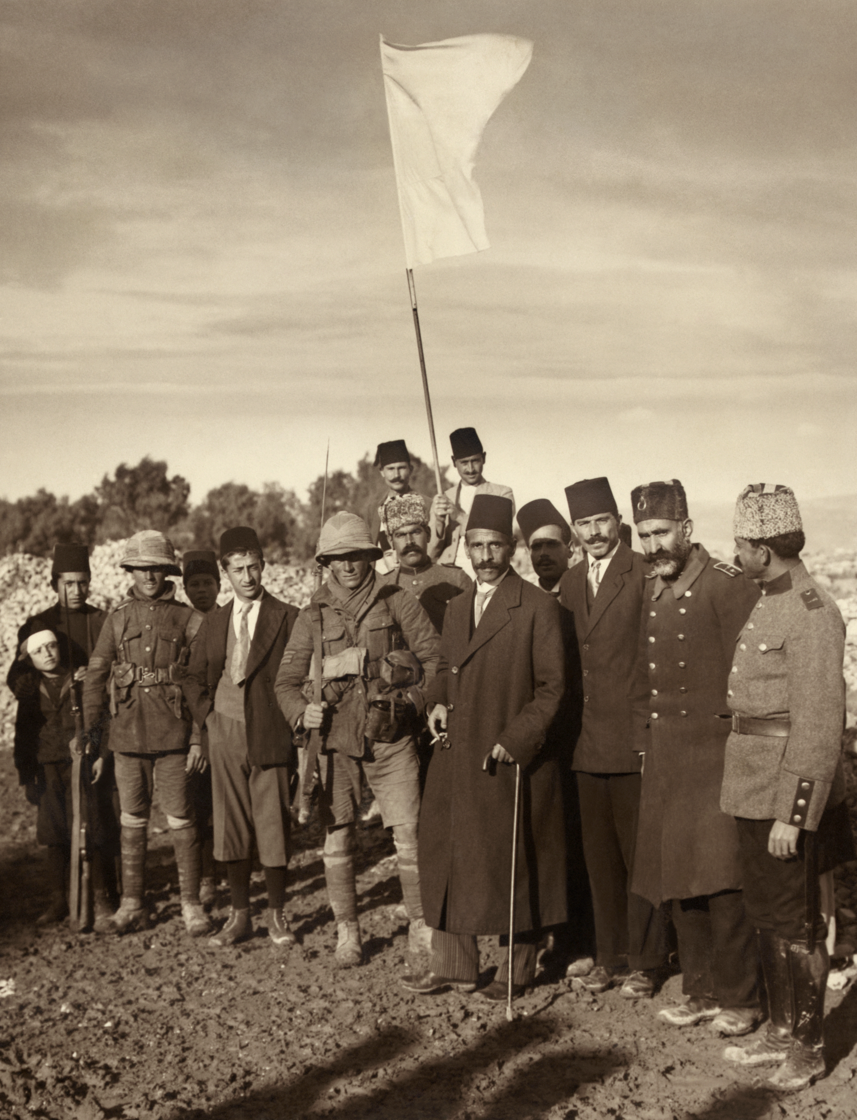 The Mayor of Jerusalem Hussein Effendi el Husseini [al-Husseini], meeting with Sergts. Sedwick and Hurcomb of the 2/19th Battalion, London Regiment, under the white flag of surrender, Dec. 9th [1917] at 8 a.m., 1917.